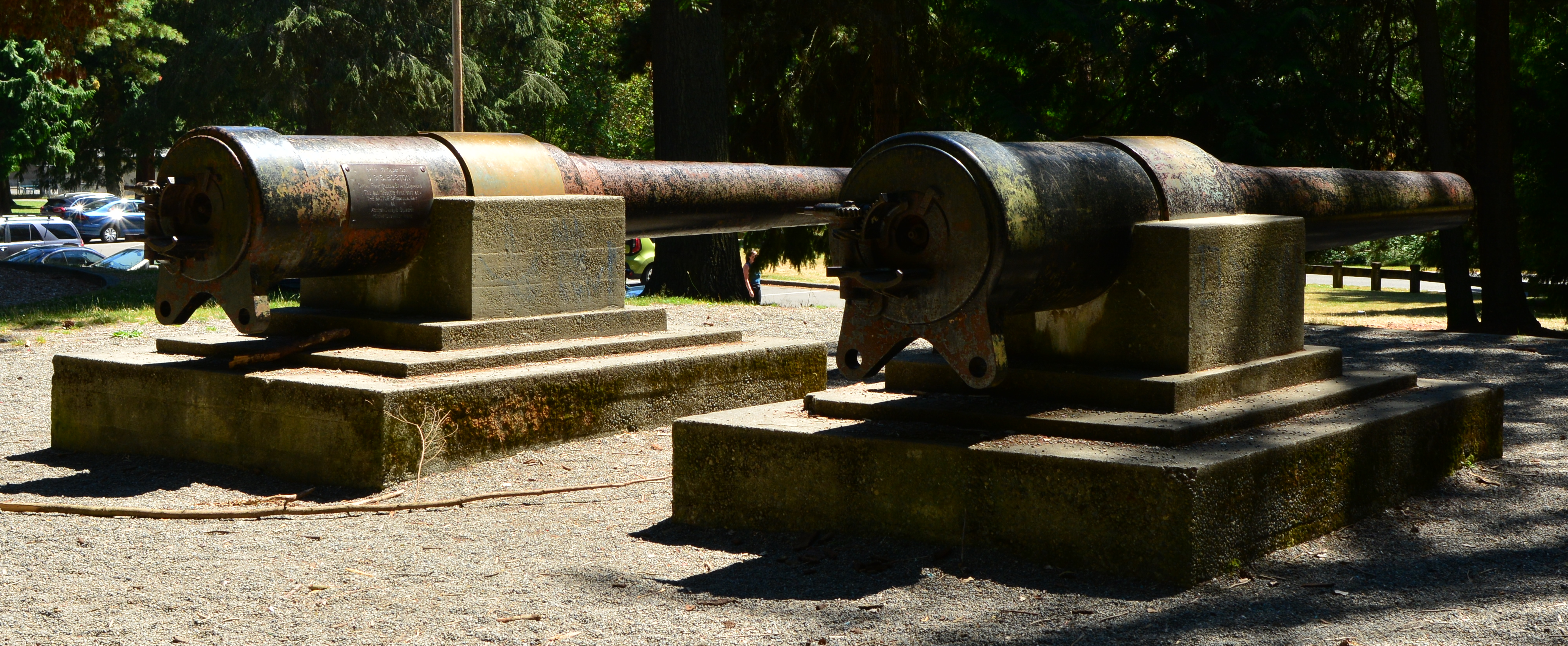 Guns from the USS Boston in Hamlin Park, Shoreline, Washington, U.S. Both guns are described as "8-Inch, 30-Caliber".